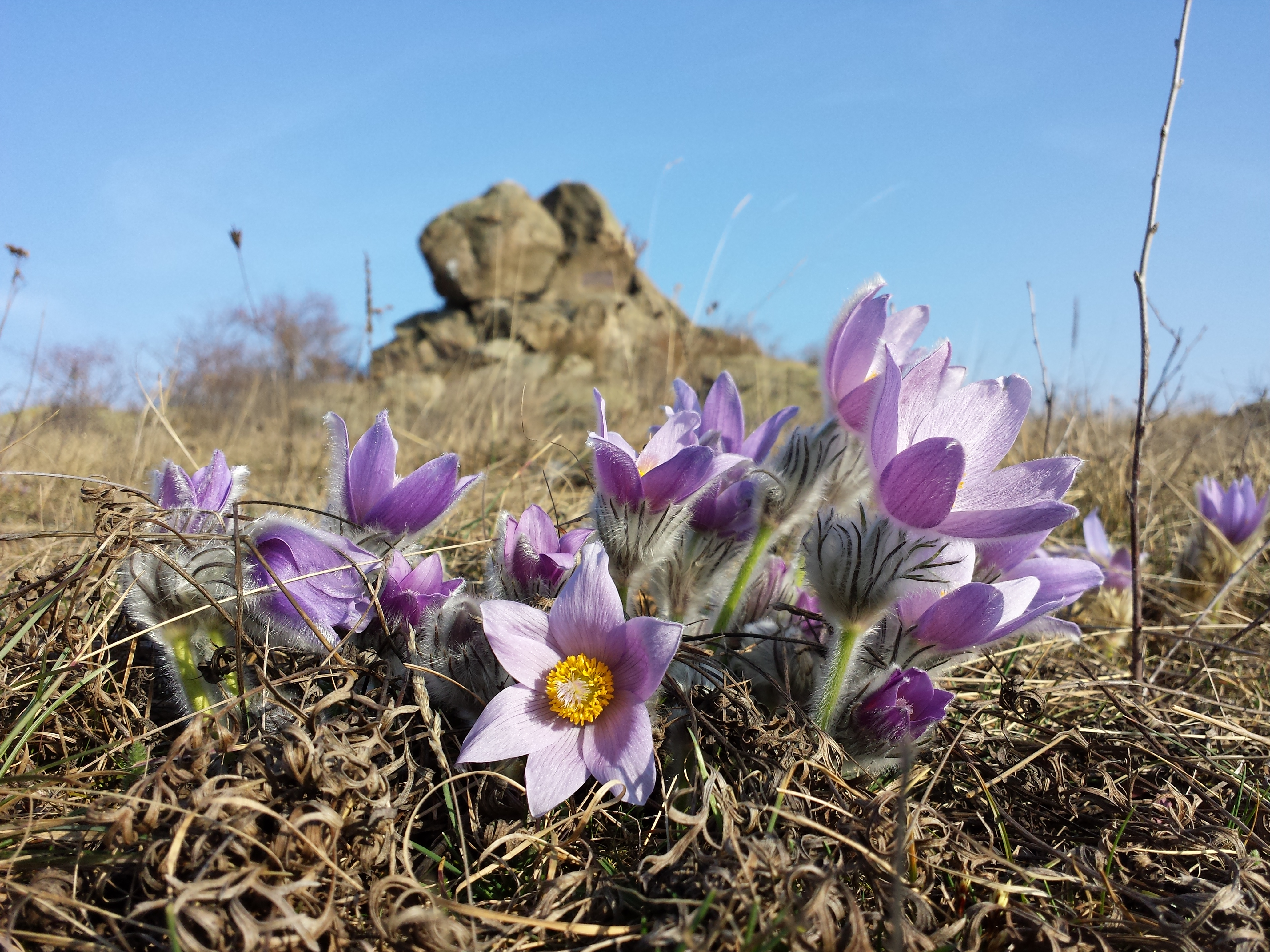 Habitus Taxon: Pulsatilla grandis (sensu Fischer et al. EfÖLS 2008 ISBN 978-3-85474-187-9) Location: nature reserve Kogelsteine-Fehhaube, district Horn, Lower Austria - ca. 330 m a.s.l. Habitat: dry grassland (silicate rock) This media shows the nature reserve in Lower Austria with the ID 68. This media shows the natural monument in Lower Austria with the ID HO-049.